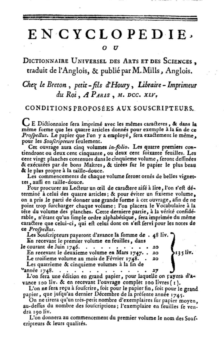 Encyclopedie, Conditions proposed to Subscriber, 1745 CONDITIONS PROPOSED TO SUBSCRIBERS. (translation) This dictionary will be printed with the same characters, & c in the same form as the four items donated for example at the end of this Prospectus. The paper is currently used will be exactly the same, only the Sousàripteurs. This book has five folio volumes. The first four contain about two hundred and fifty to two hundred sixty sheets. The fifth volume will contained hundred twenty pages, all designed & executed by good masters, & drawn on the best paper & most suitable for intaglio. The beginning of each volume will be adorned with beautiful vignettes, as intaglio. To provide the reader an eye character easy to read, it was determined that of the four items; & to avoid sixth volume, we took the party to give a great shape to this work, so as not to to overload each volume; Vocabulary is placed ALA head volume boards. This last part, the considerable truth, being a simple alphabetical order will be printed on the same character as this, which is that which was used for the notes of this Prospectus. Subscribers will pay in advance the amount of ... 48 Ibs. Receiving the first volume leaves sometime in June 1746 ... 20 Receiving the second volume in March 1747 ... 20 The third volume in the month of February 1748 ... 20 The fourth 8c fifth volumes at the end of "1748 ... 27 This will create a large paper edition, for which advance pay 100 livres on. & Receiving work full 100 pounds (l). It can not be received to purchase or our fine paper, is for the general paper, which until last December of this year 1745. We will derive a very small number of copies using paper over the number of subscriptions, copy sheet will sell. 190 Ibs. One will give the beginning of the first volume name Subscribers & their qualities.